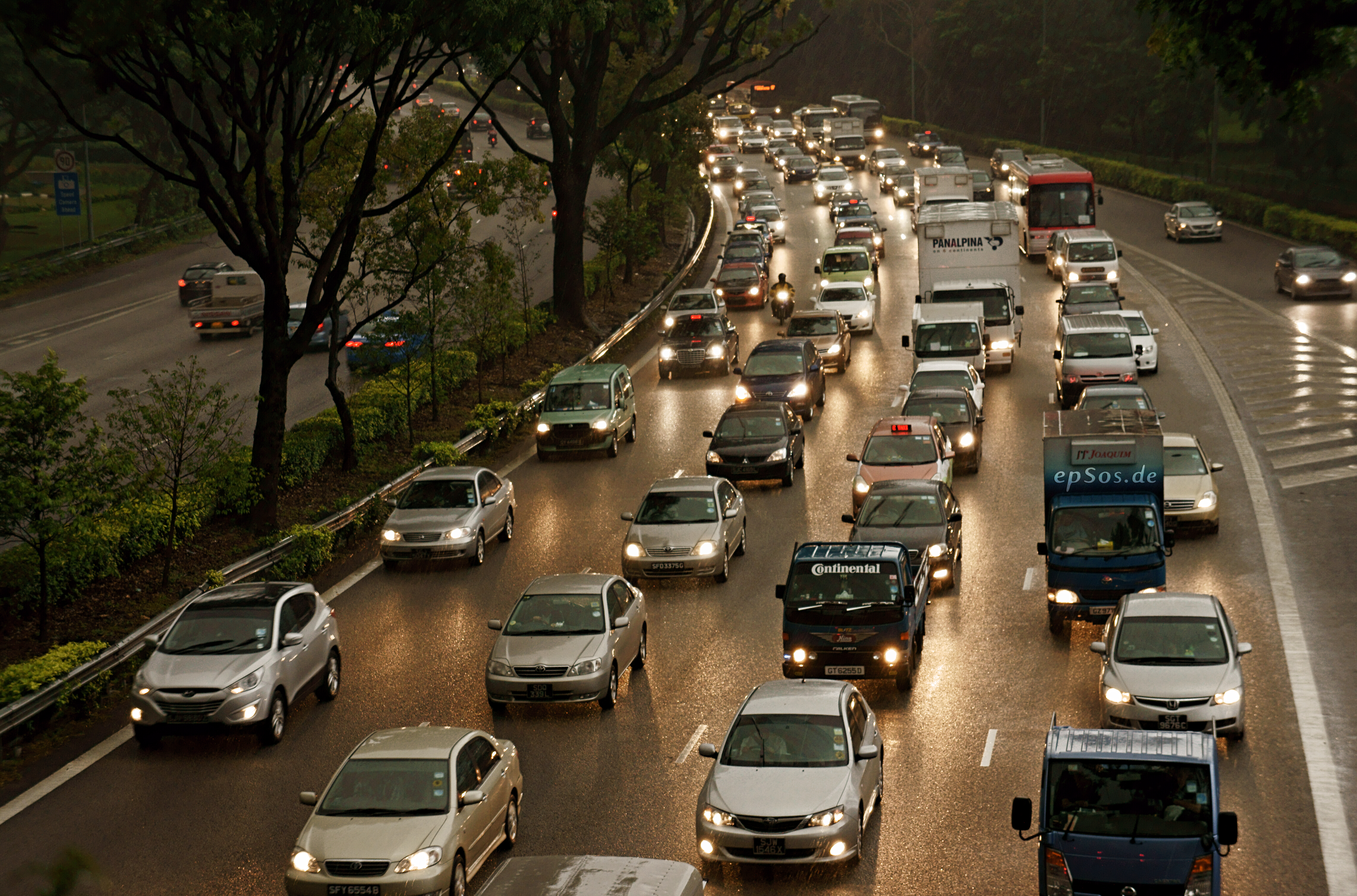 Free picture of beautiful new cars, electric trucks and old autos in a traffic jam under rainy weather conditions. The lights of the cars reflect on the wet road and make the dark street to be more comfortable for the insects to fly around. This beautiful picture can be used for free, if you link epSos.de as the original author of the image. The used automobiles in this picture are located in Singapore, close to the NUH. The trafic jams of Singapore are a normal condition during rush hours. It makes the driving more fun on the congested highway. This picture was used in here: Thank you for sharing this picture with your friends !